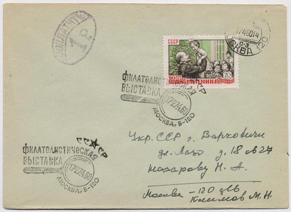 USSR 1960-04-17 cover sent from Moscow to Varkovychi, Dubno Raion, Rivne Oblast, postage due 1rub by grey oval 'DOPLATIT' handstamp. Franked with Lenin 90th anniversary 20kop stamp. Catalogue: Mi. 2331, Sc. 2312, CPA 2410.